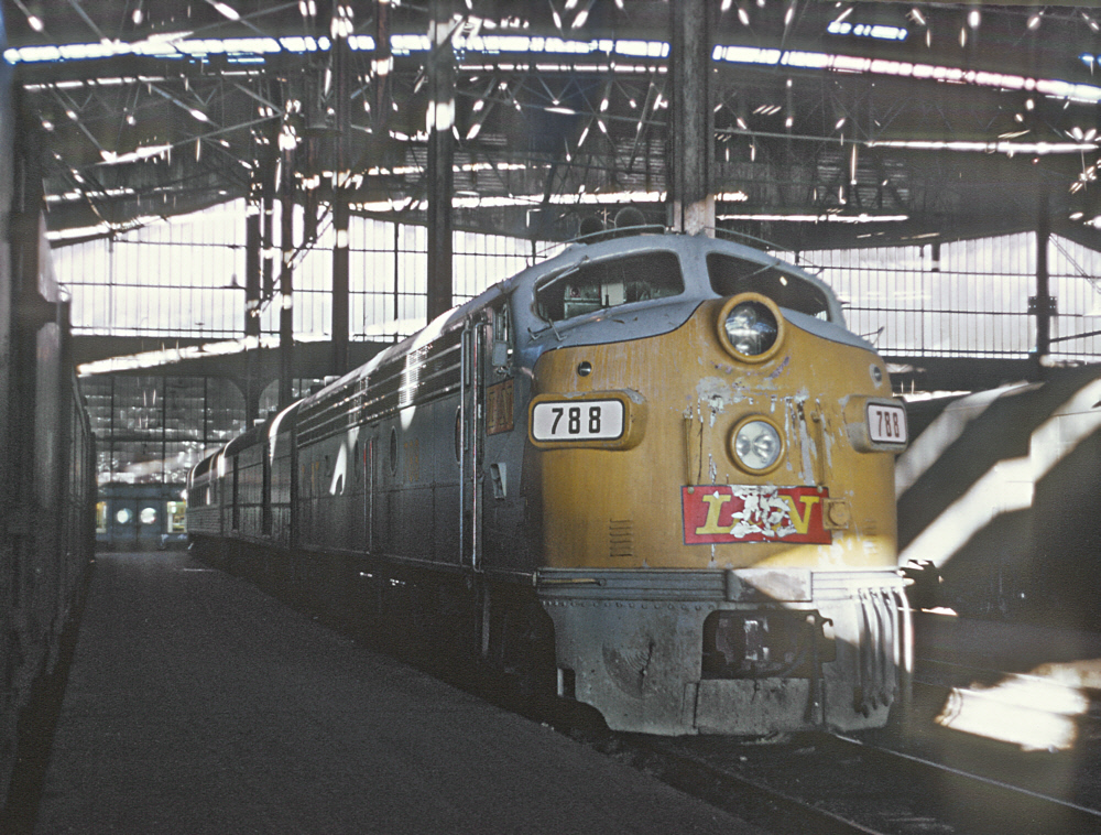 Look what Roger Puta found under the Union Station train shed in St. Louis, MO on December 14 and 15, 1970. Louisville & Nashville E8A 788 (ex-SLSF 2014) with Train 5, the Georgian, on December 14, 1970.